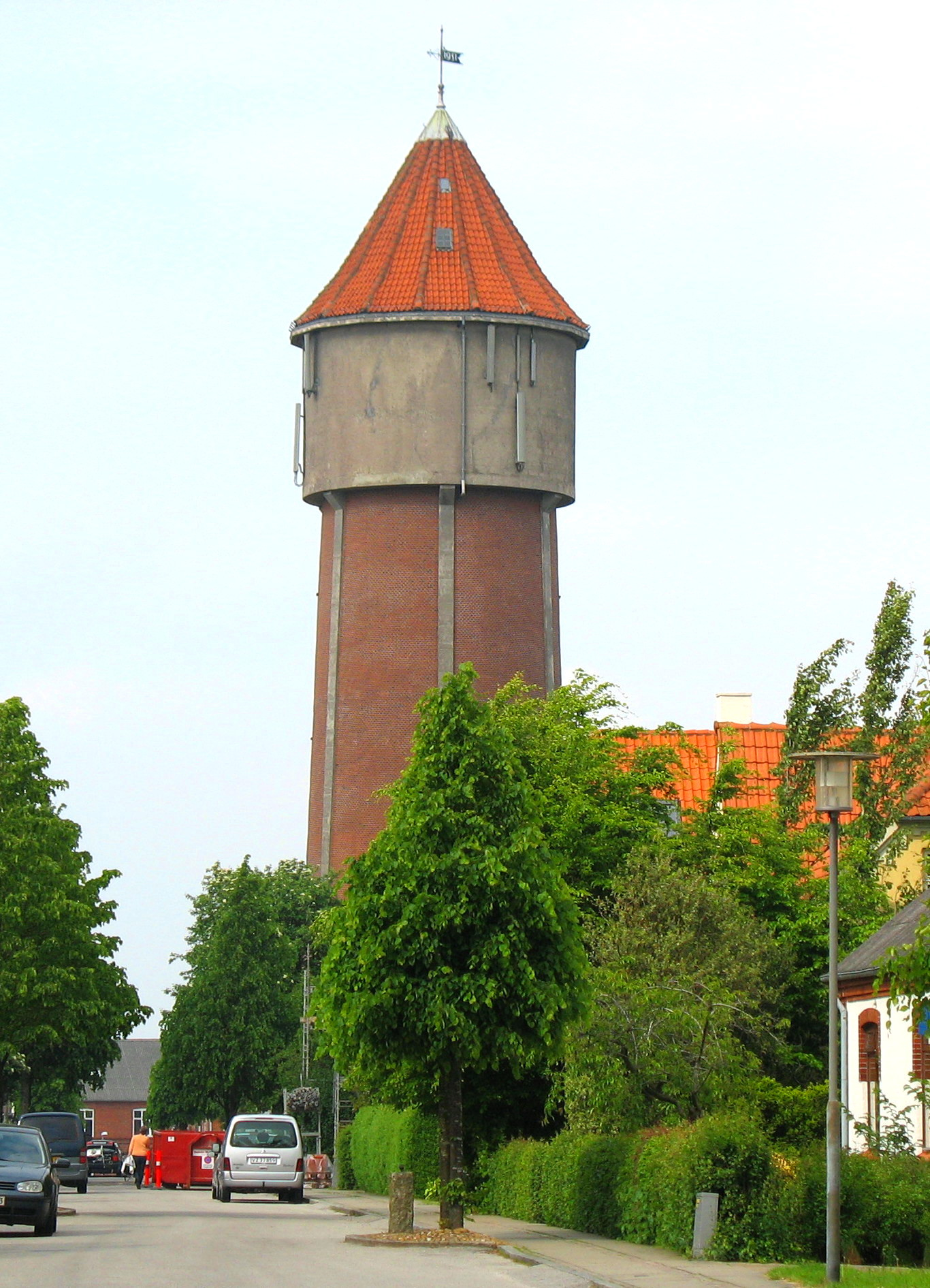 Water tower of Struer, Community of Struer, Region Mid-Jutland, Denmark.